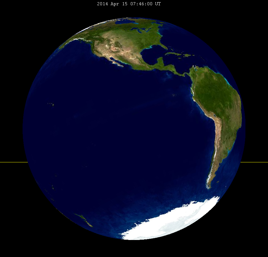 April 2014_lunar_eclipse view of earth